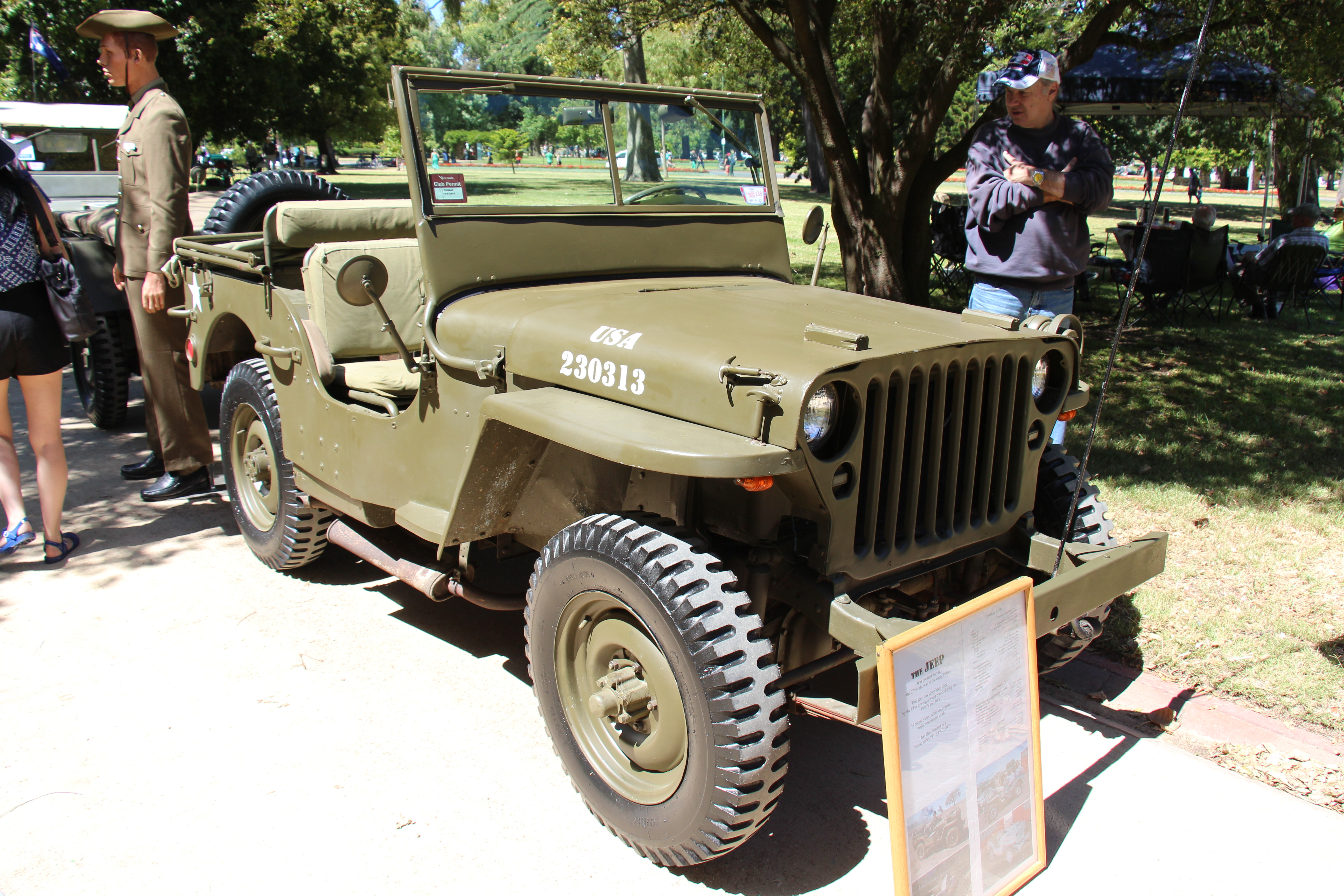 The Willys-Overland MB US Army Jeep and the Ford GPW were manufactured from 1941 to 1945. These small four-wheel drive utility vehicles are considered the iconic World War II Jeep. Willys initially won the contract to supply the war dept with Jeeps but the demand was so great, Ford was asked to produce them as well. During World War II, Willys produced 363,000 Jeeps and Ford some 280,000. Willys won the rights to continue using the Jeep name after the war, hence the CJ Jeep. Engine; 54 hp 134 cu in Side Valve 4 cyl, 3 spd manual with 2 spd transfer case and selectable 4WD